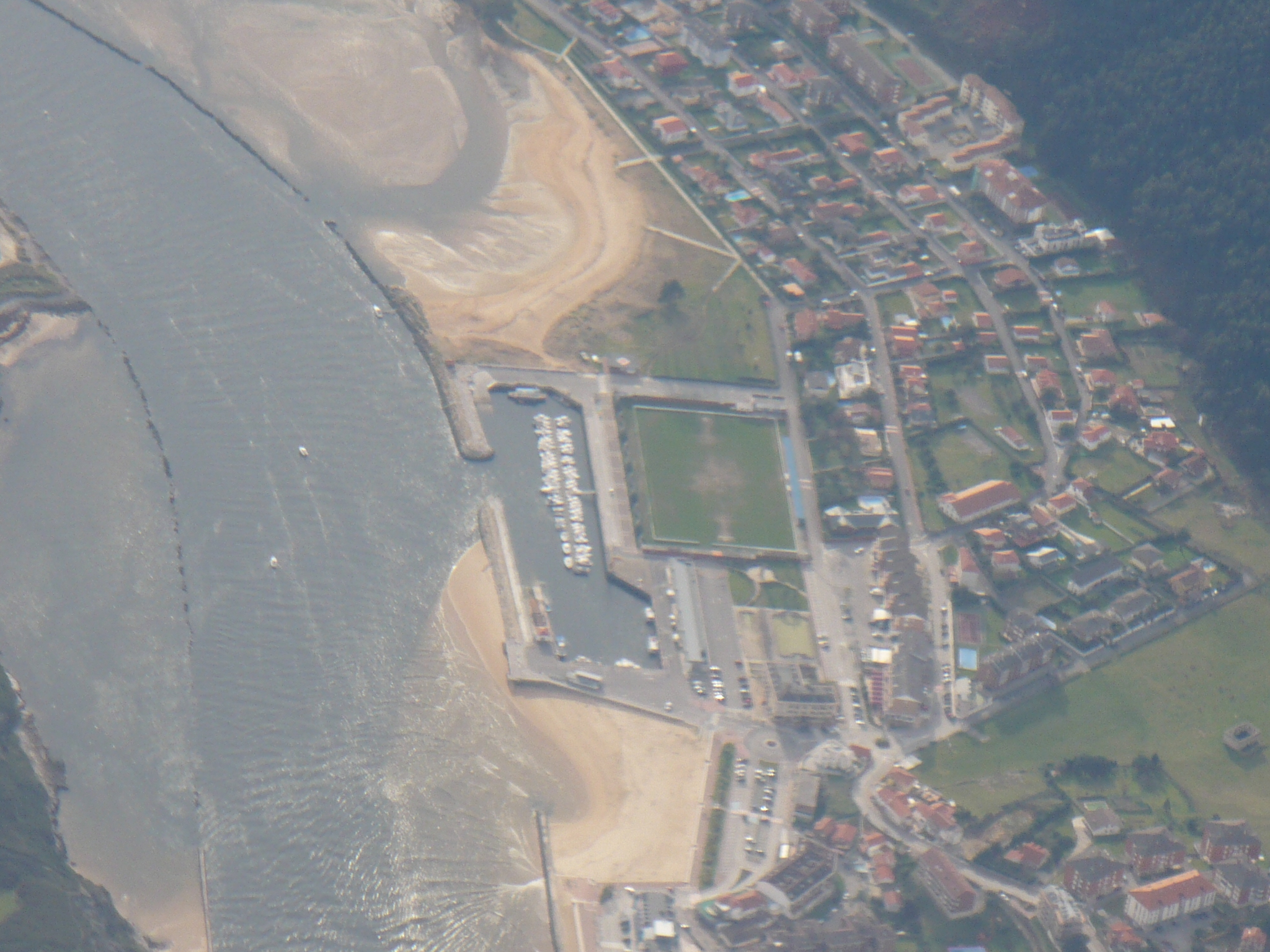 La Ribera stadium (Suances, Cantabria), home to SD San Martín de la Arena, as seen from an airliner